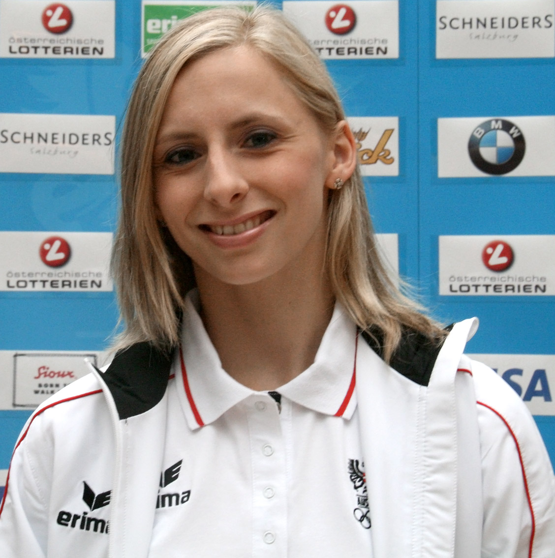 Rhythmic gymnast Caroline Weber at the hand-out of the Austrian teams official attire for the 2012 Summer Olympics in London (Marriott, Vienna).